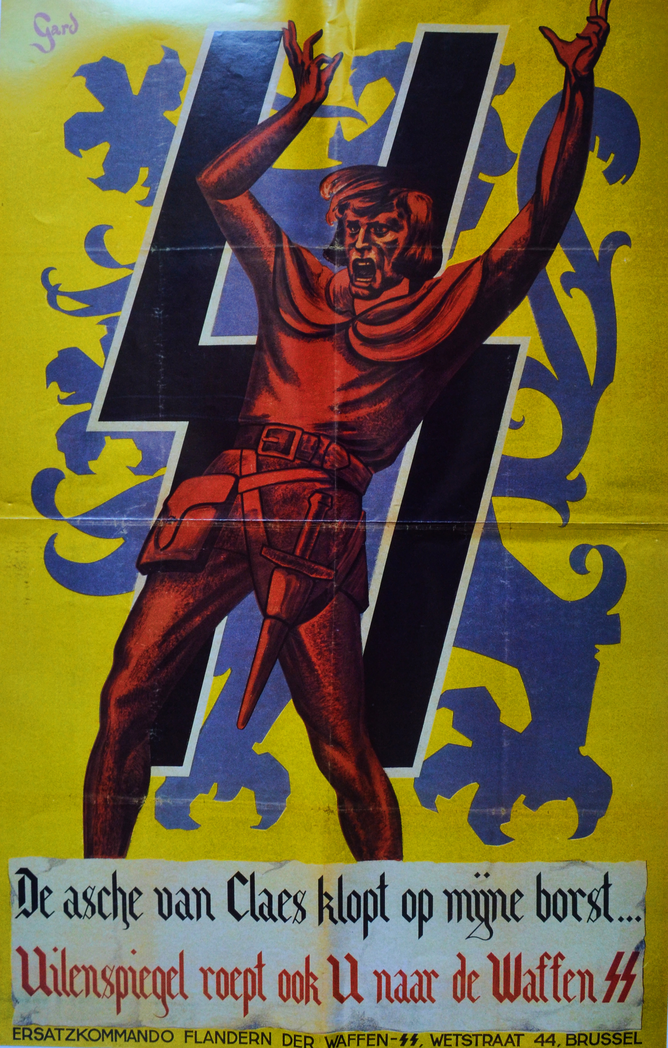 propaganda poster Of 27th SS Volunteer Grenadier Division Langemarck with Title: The ashes of Claes pats on my chest ... Ulenspiegel also calls you to the Waffen SS